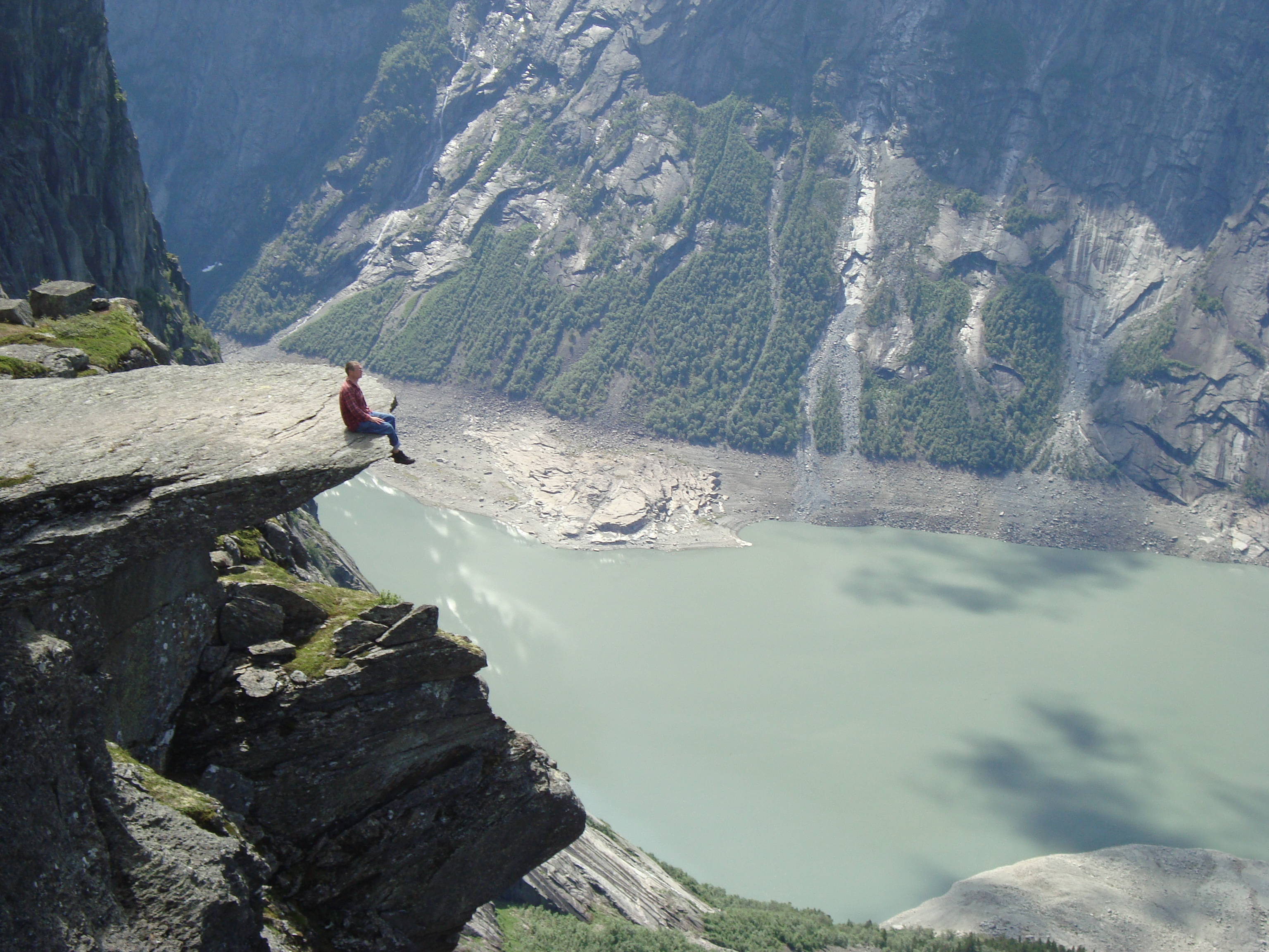 On the nose's edge